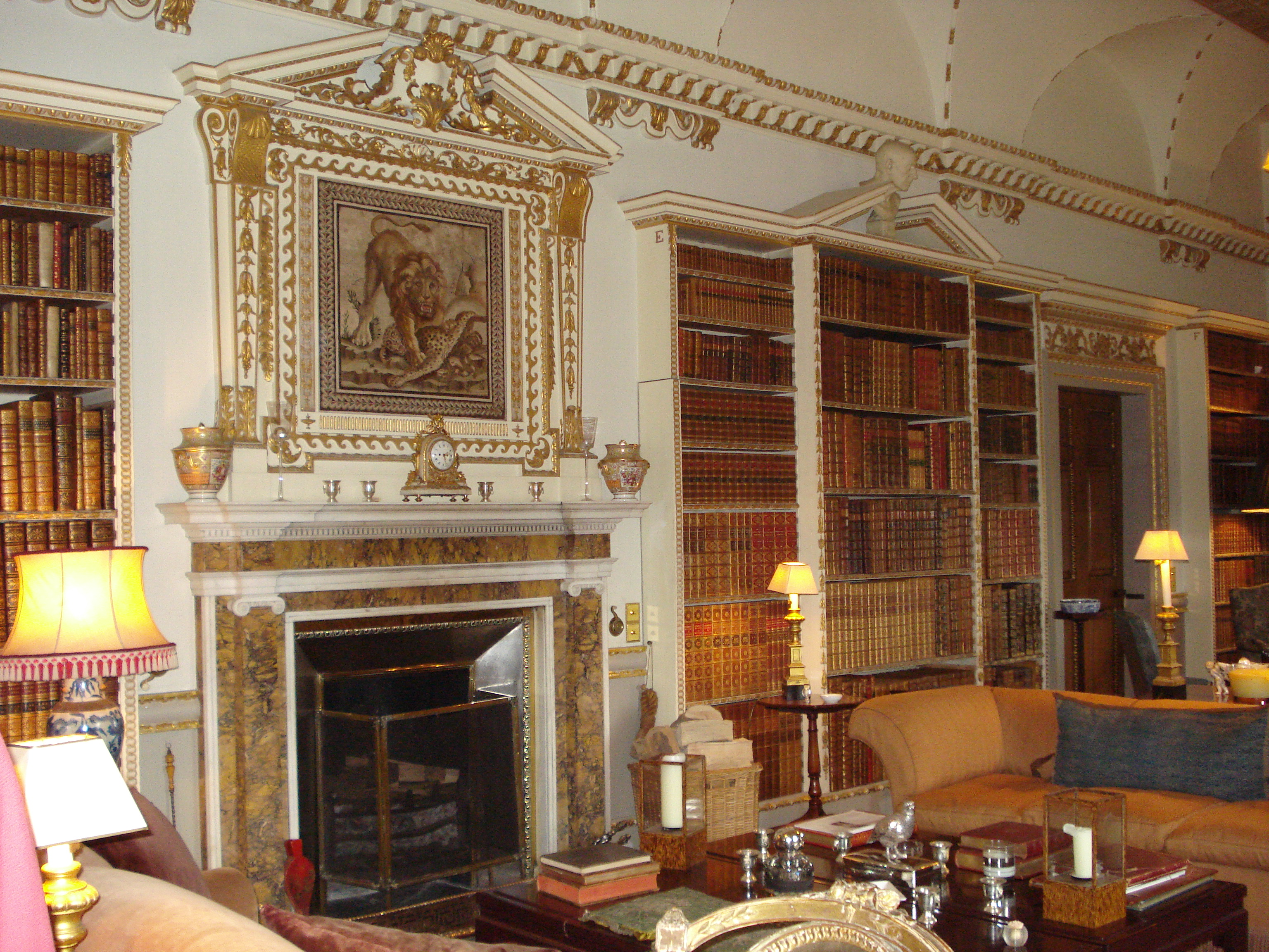 Stately Homes